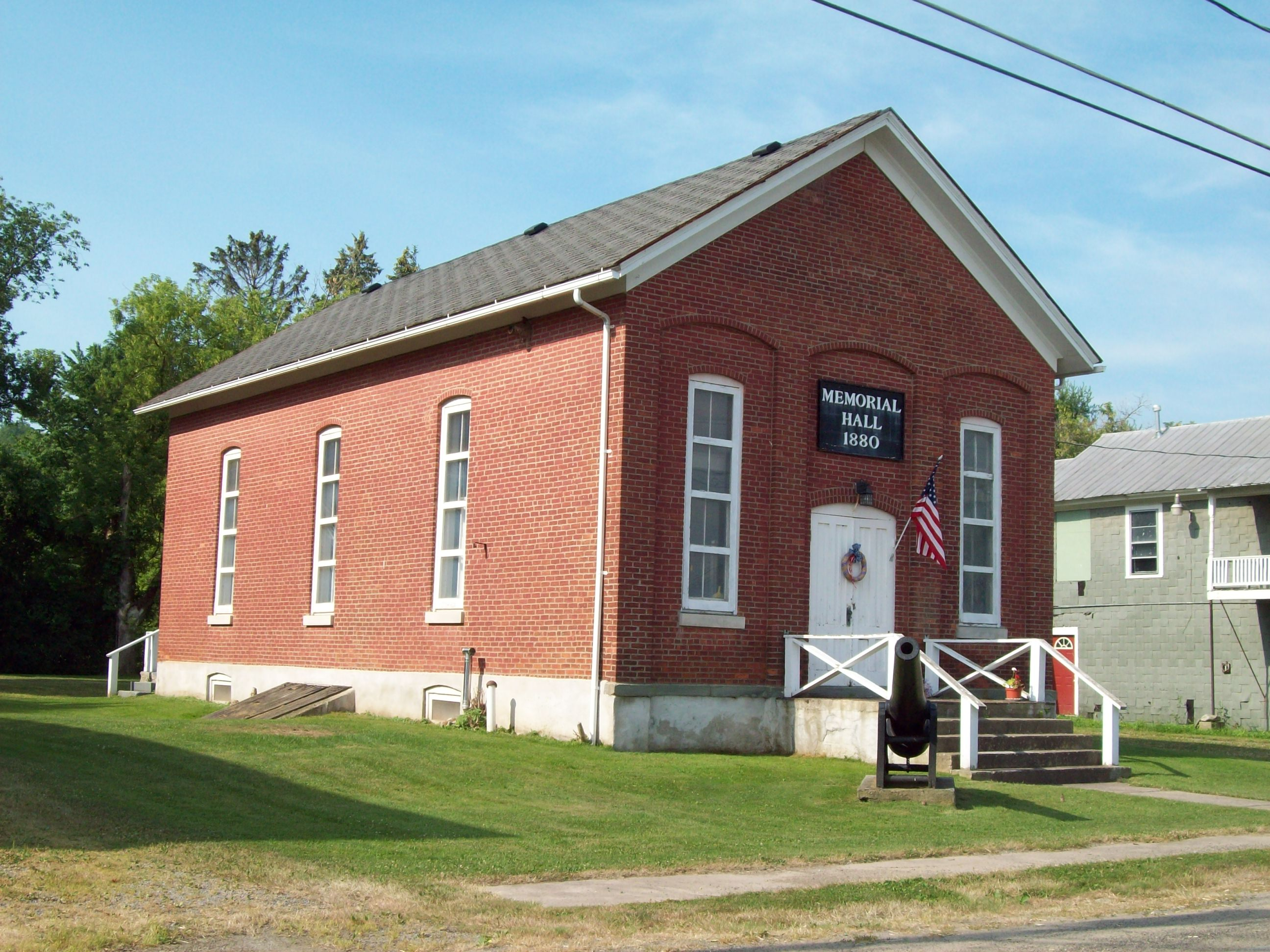 G.A.R. Memorial Hall, Hunt, NY, July 2011N